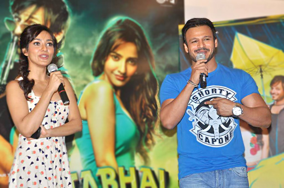 Neha Sharma, Vivek Oberoi at the Promo launch of 'Jayanta Bhai Ki Luv Story'